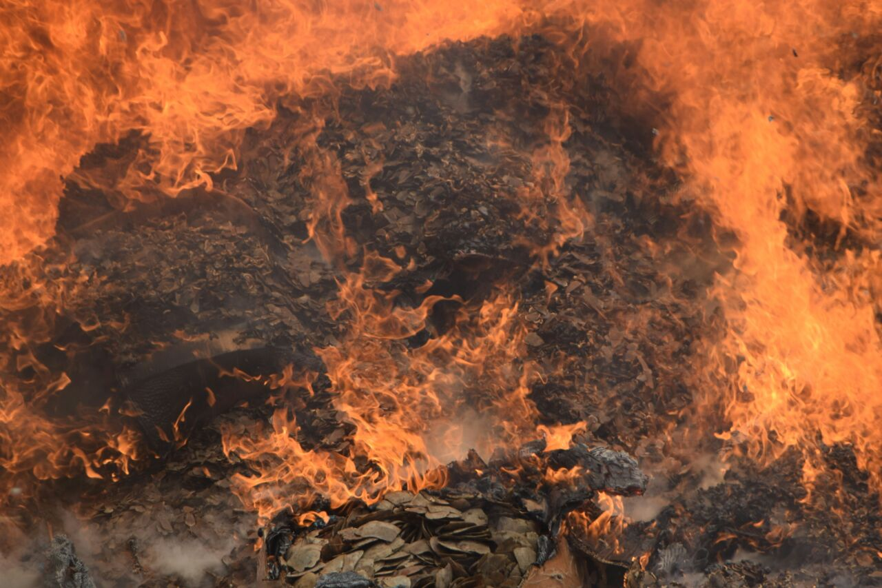 Cameroon burned approximately 3 metric tons of confiscated pangolin scales on February 17, 2017. Album description: "On the eve of World Pangolin Day, the U.S. Fish and Wildlife Service commends the Government of Cameroon for its destruction today of approximately 3 metric tons of confiscated pangolin scales. Pangolins are believed to be the most heavily trafficked wild mammals in the world, with as many as 1 million pangolins being poached from the wild during the last decade. Today’s pangolin scale burn event, the first of its kind in Africa, will send a strong message that the poaching of pangolins and trafficking of their meat and scales will no longer be tolerated in Cameroon."